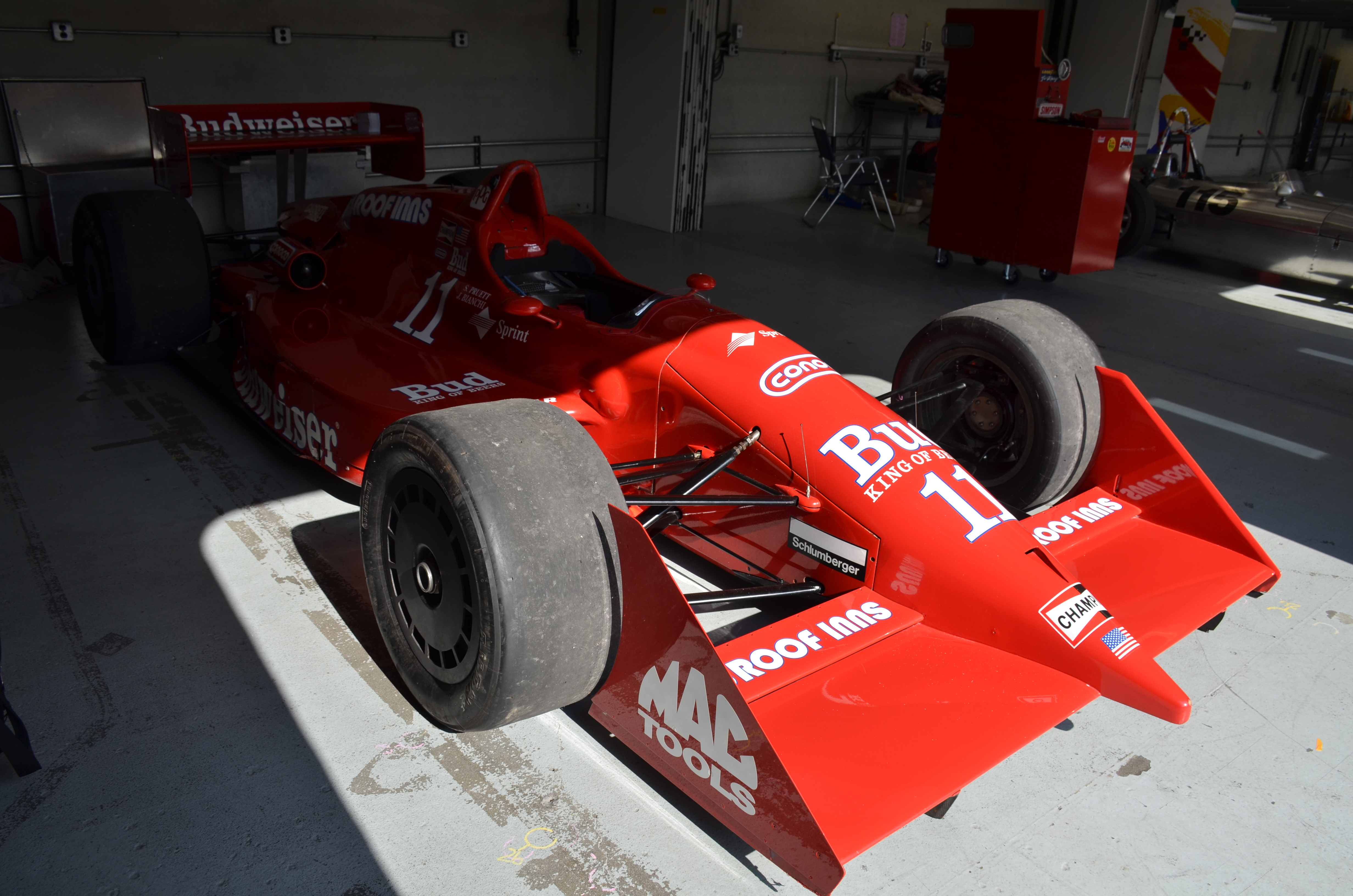 1991 Truesports 91C-01 Chassis. At 2016 SVRA at Indianapolis Motor Speedway.